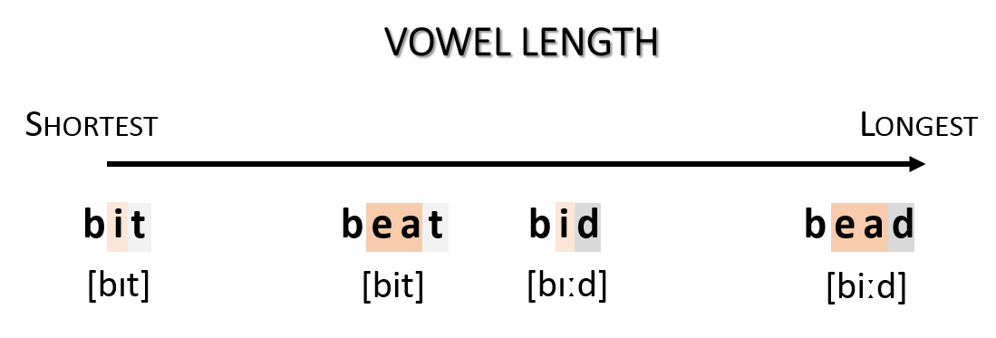 Allophonic vowel length in English